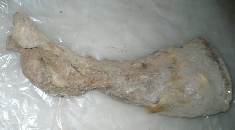 This is Yukagir's leg.